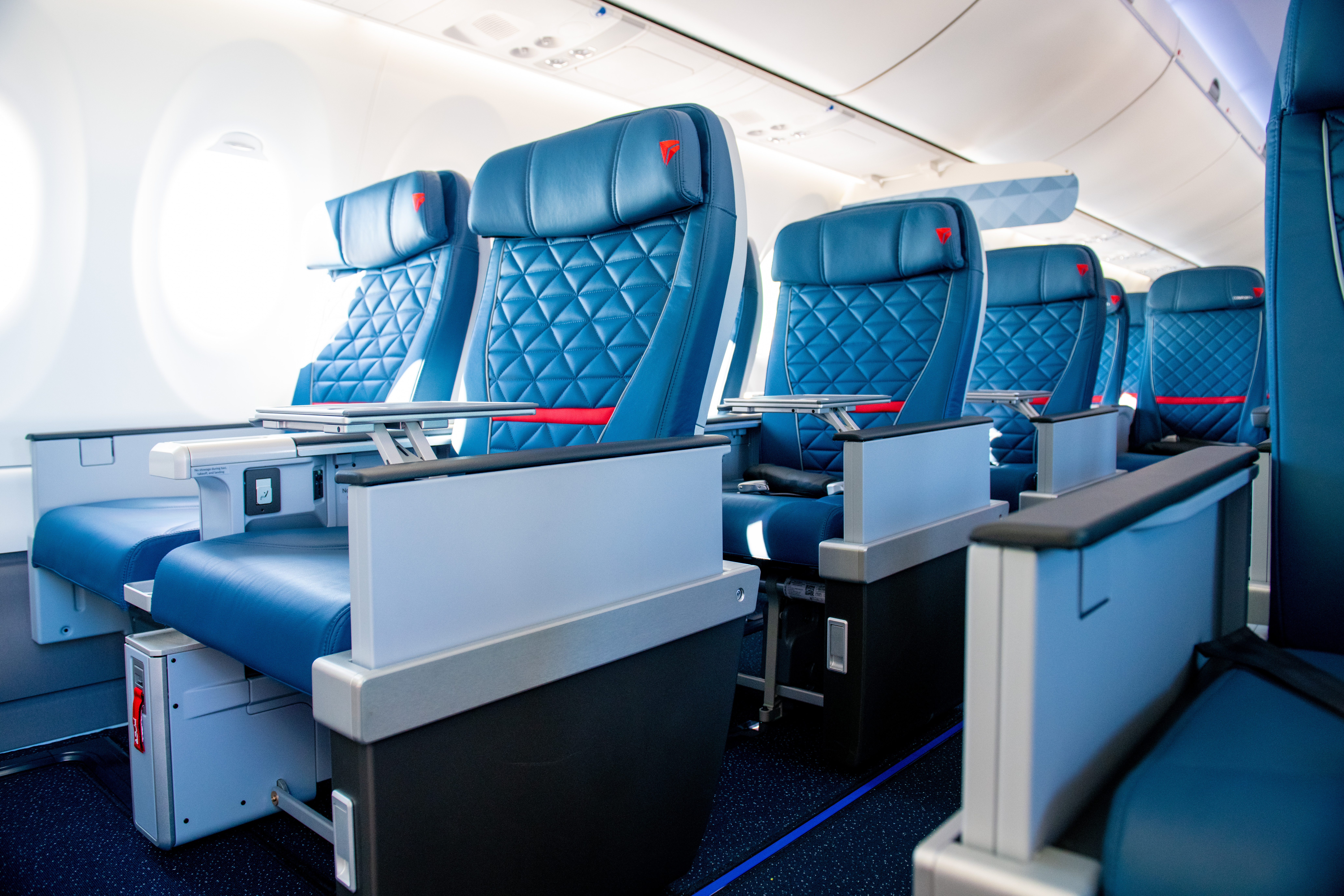 Details are shown on Delta Air Lines first A220 in Atlanta, Georgia at Hartsfield Jackson International airport on Sunday October 28,2018. (Chris Rank/Rank Studios 2018)